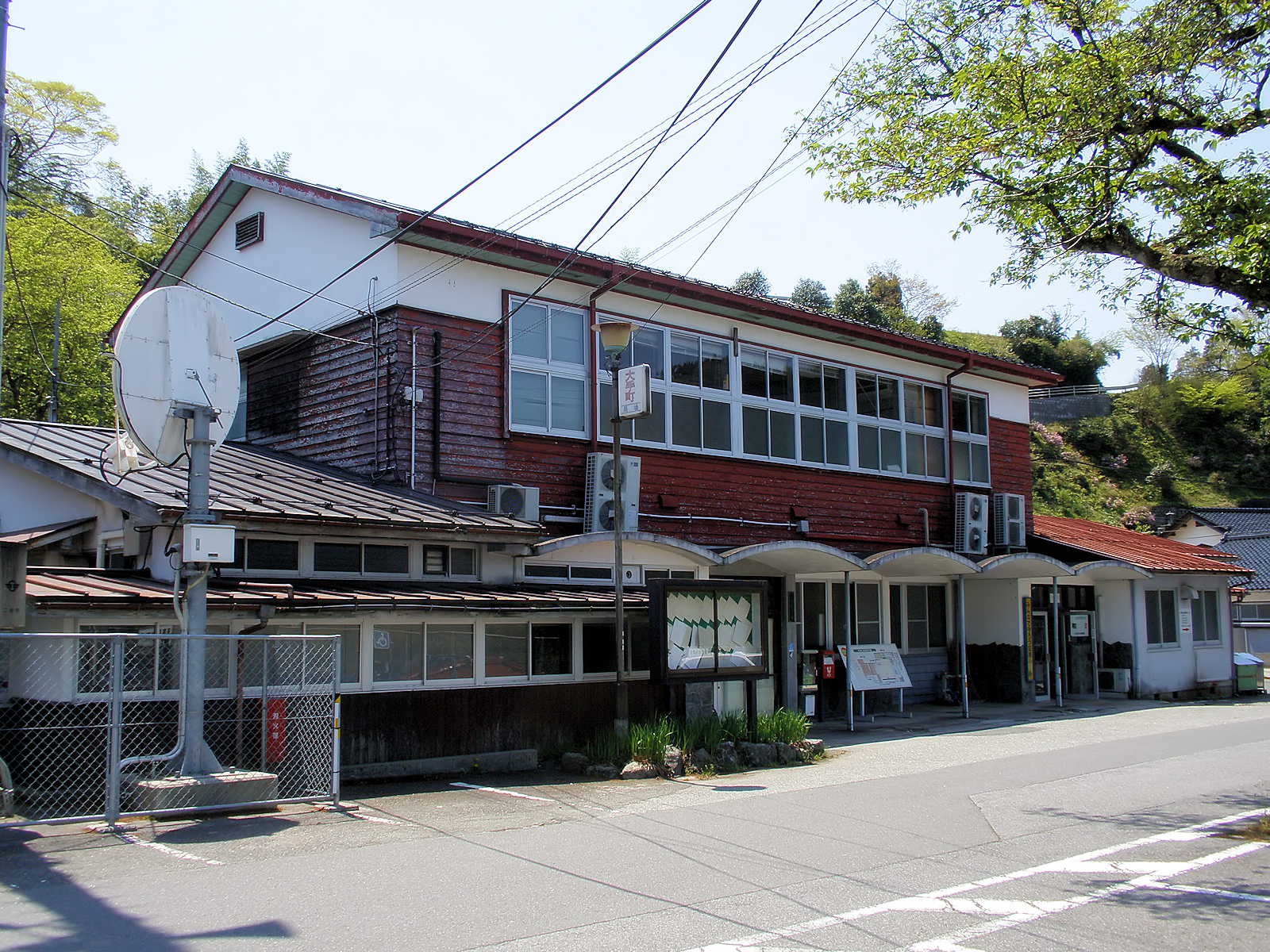 Kōfu town office